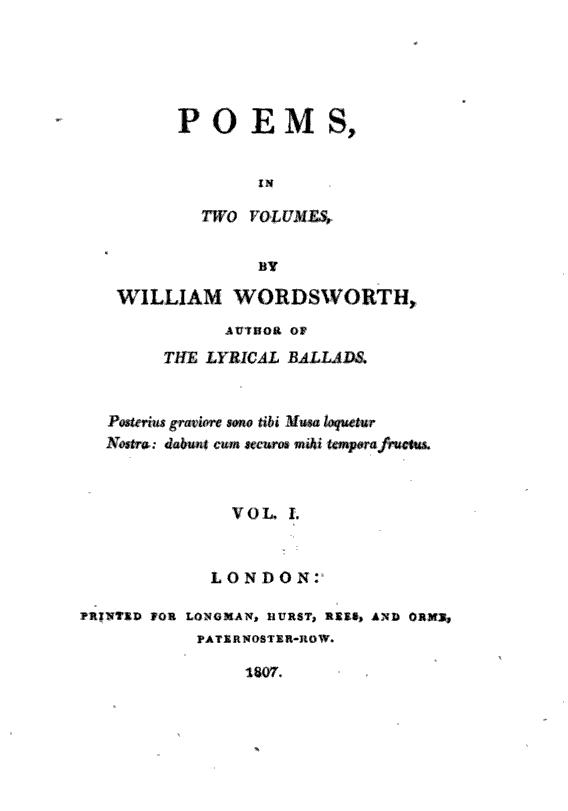 The title page of Poems in two volumes, the series of works by William Wordsworth. Original work was published before 1923 (US) and unknown authorship before 1939 (UK). It would be impractical, and I believe impossible, to find who originally held the copyright, and its status now.